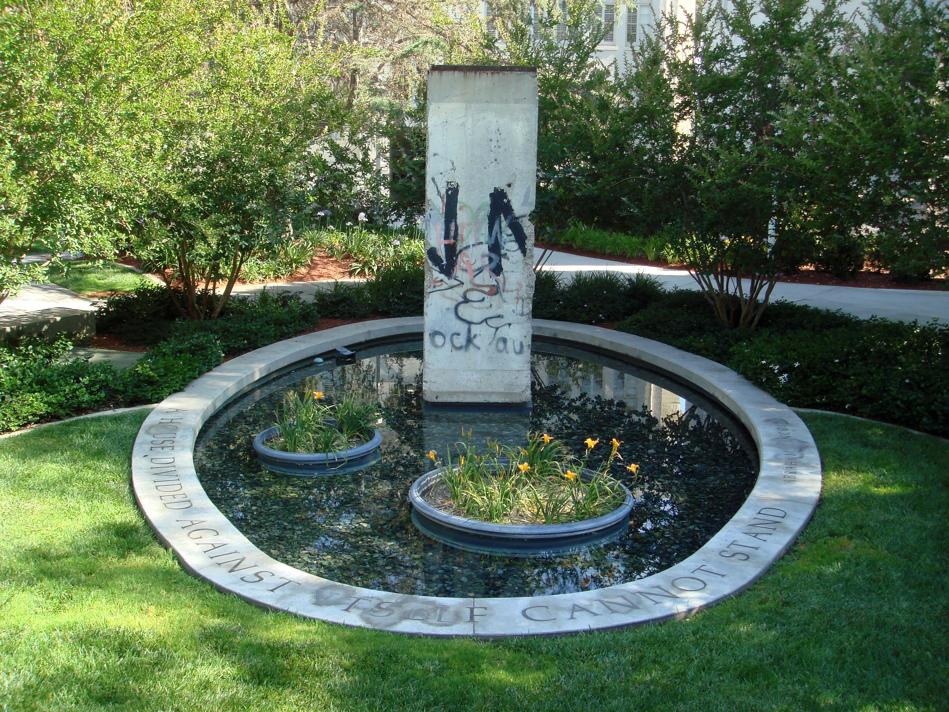 Chapman University (Orange, California): Pictured is a section of the Berlin Wall in Liberty Plaza. The pond is surrounded by the quote by Abraham Lincoln: "A house divided against itself cannot stand."